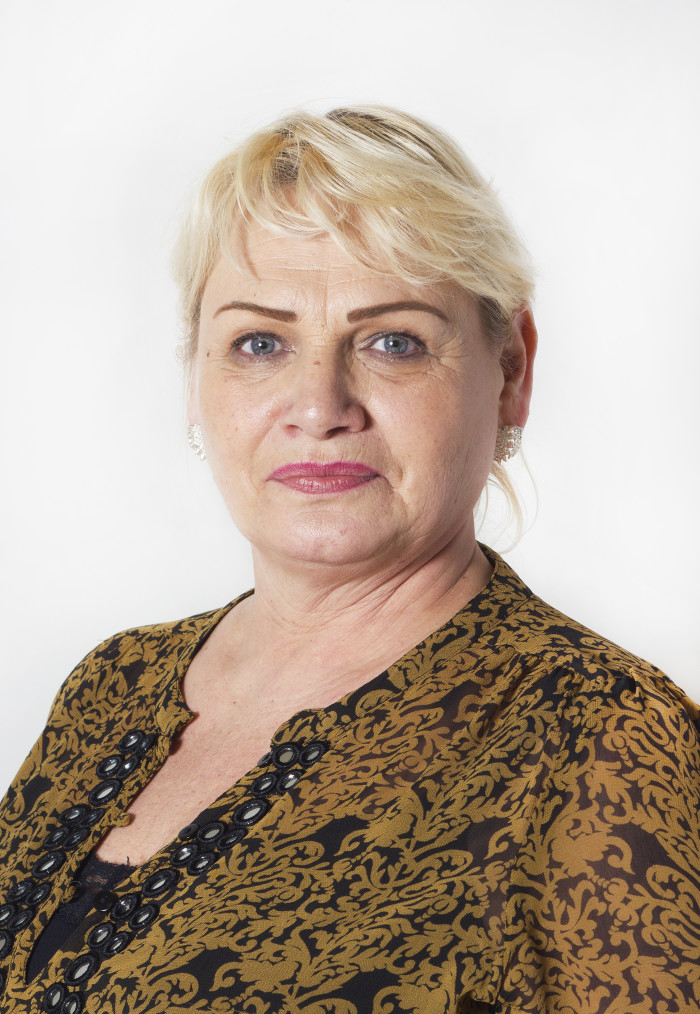 Soraya Post, Swedish politician for the Feminist Initiative